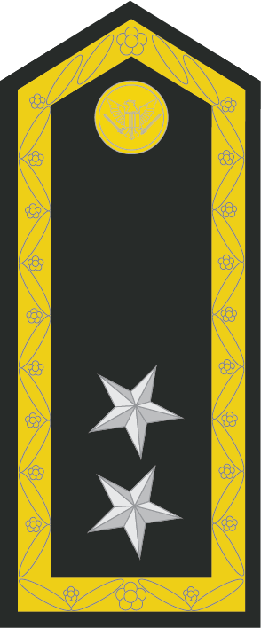 The Army of the Republic of Vietnam's rank of Major General (Thiếu Tướng), 1967-1975